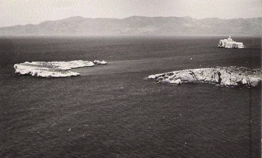 The three Spanish-held Alhucemas Islands off the coast of Morocco: Isla de Mar (foreground, left), Isla de Tierra (foreground, right), Peñón de Alhucemas (background, right). Postcard published in the 1950s.